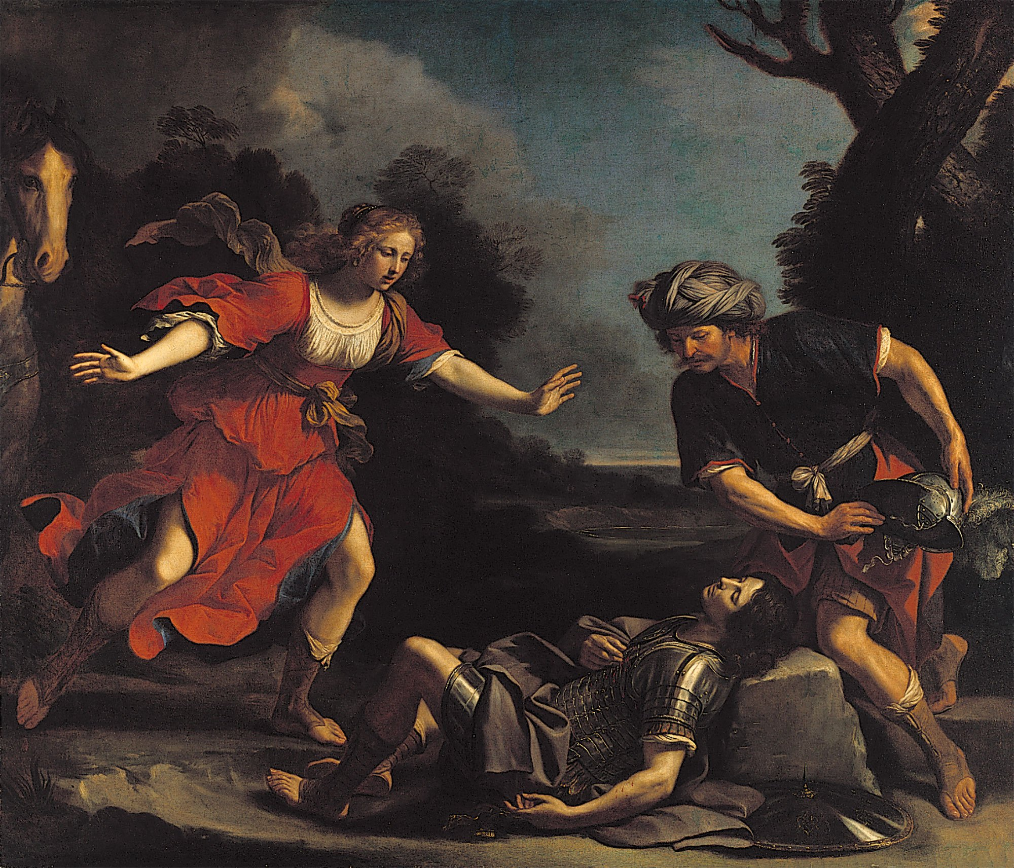 Erminia Finding the Wounded Tancred by Il Guercino, oil on canvas, 248.9 x 293.3 cm., National Galleries of Scotland